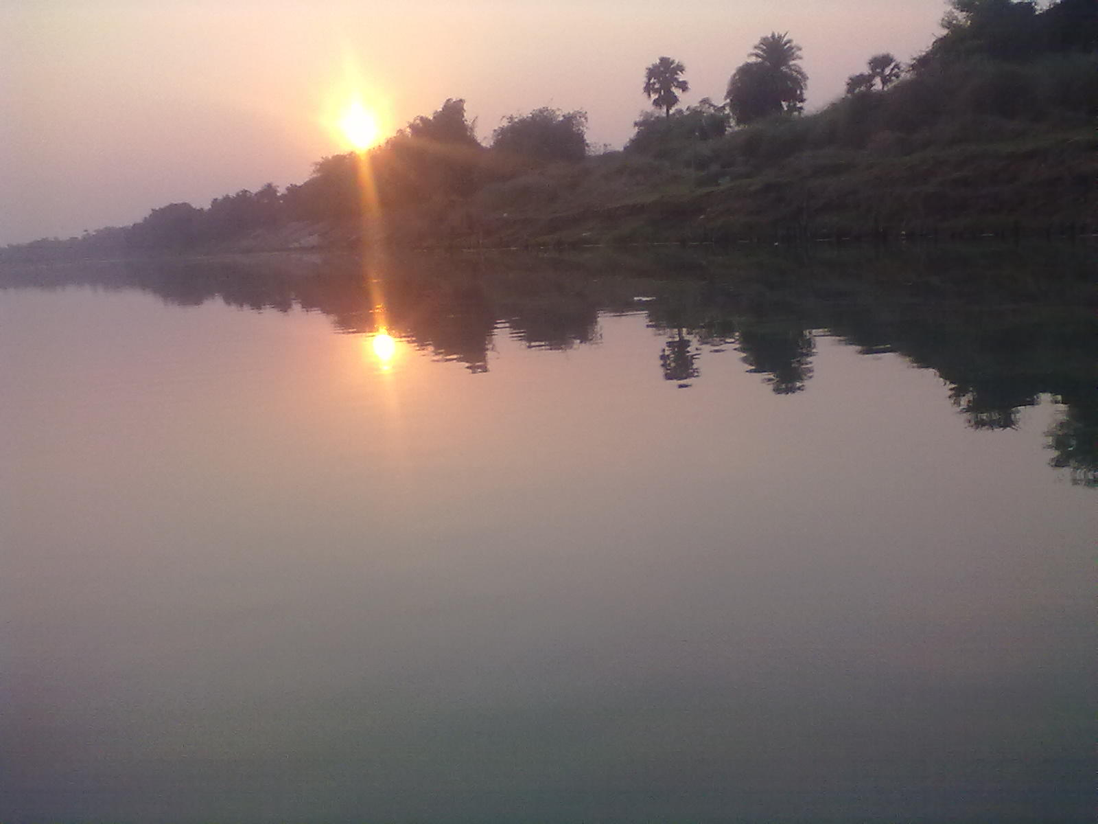 Damodar River at Monsuka village in Howrah